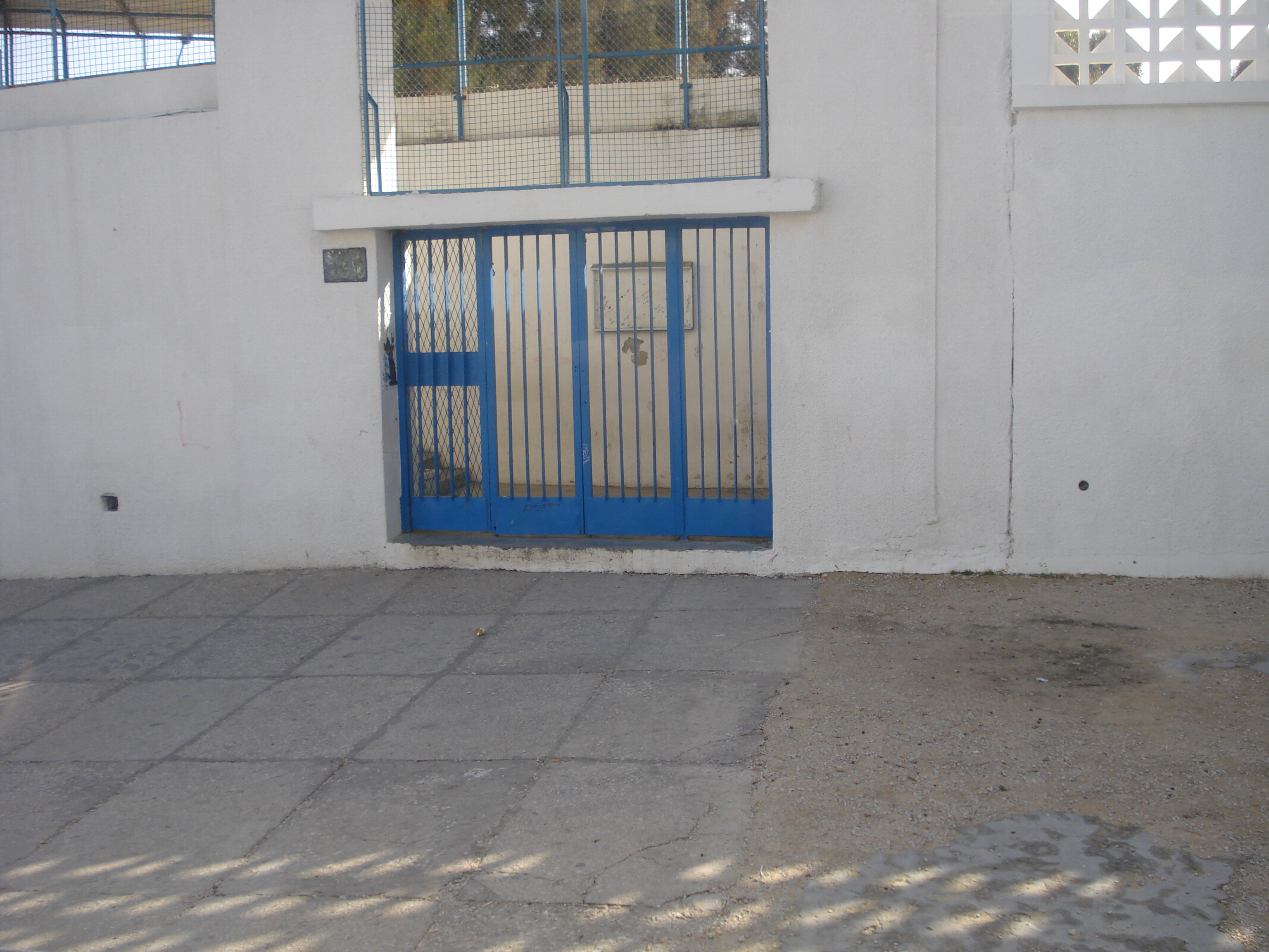 Main entrance of the Lycée Gustave Flaubert (La Marsa)